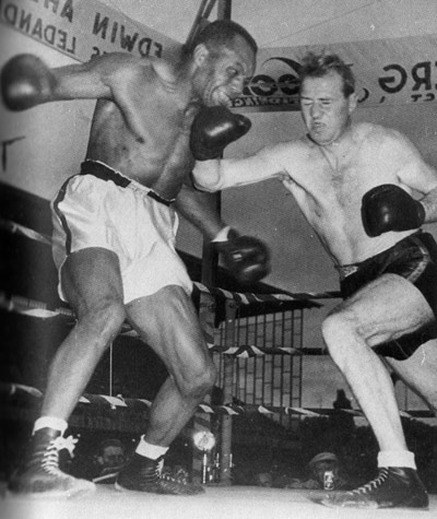 Olle Tandberg and Joe Walcott boxing in 1949. Årets sportbild 1949.